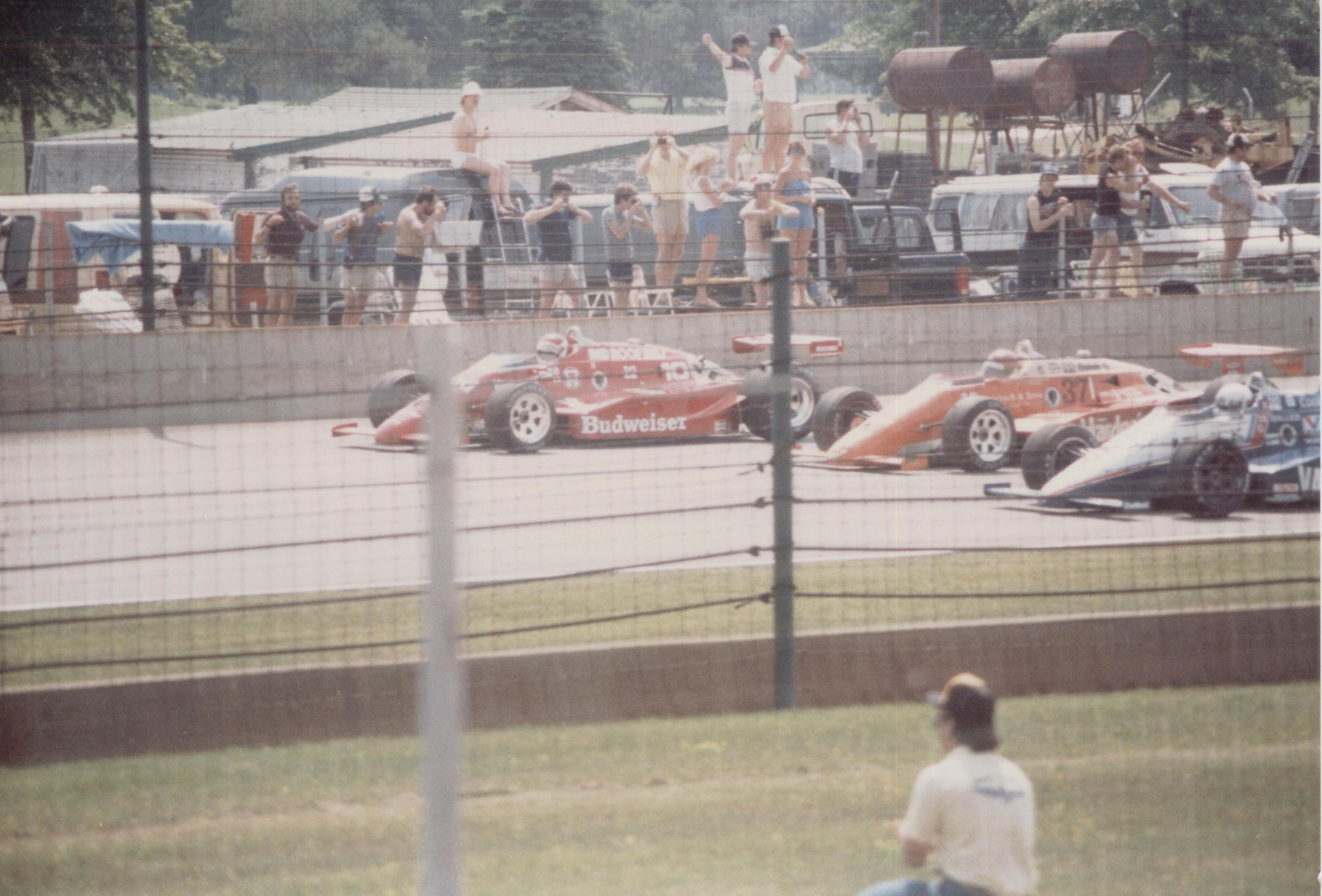 Front row for the 1985 Indianapolis 500. (L to R) Bobby Rahal, Scott Brayton, Pancho Carter.